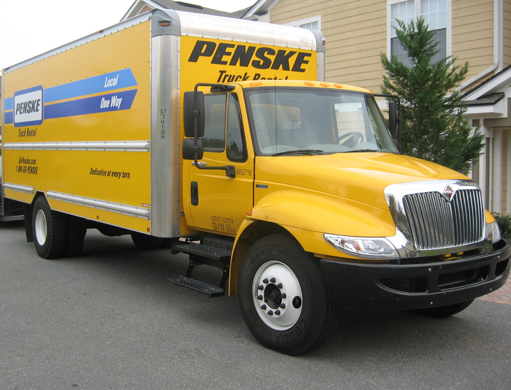 A 22 foot Penske rental truck